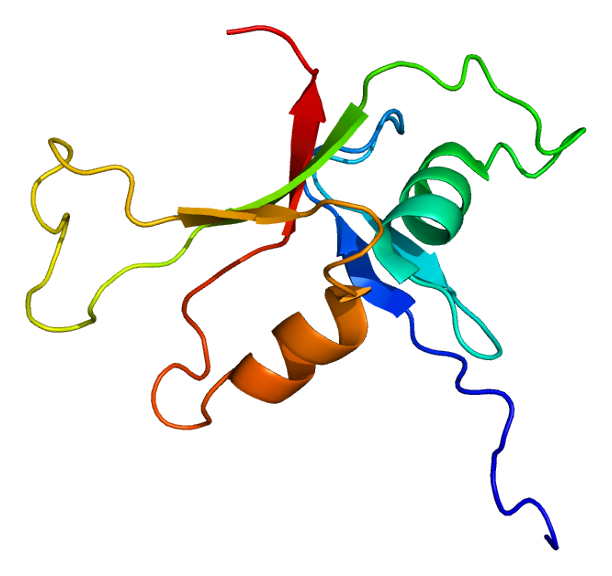 Structure of the PLCE1 protein. Based on PyMOL rendering of PDB 2bye.